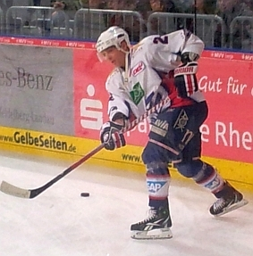 Adam Mitchell, ice hockey player, forward